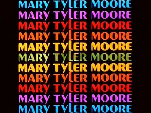 Screenshot of Mary Tyler Moore title screen